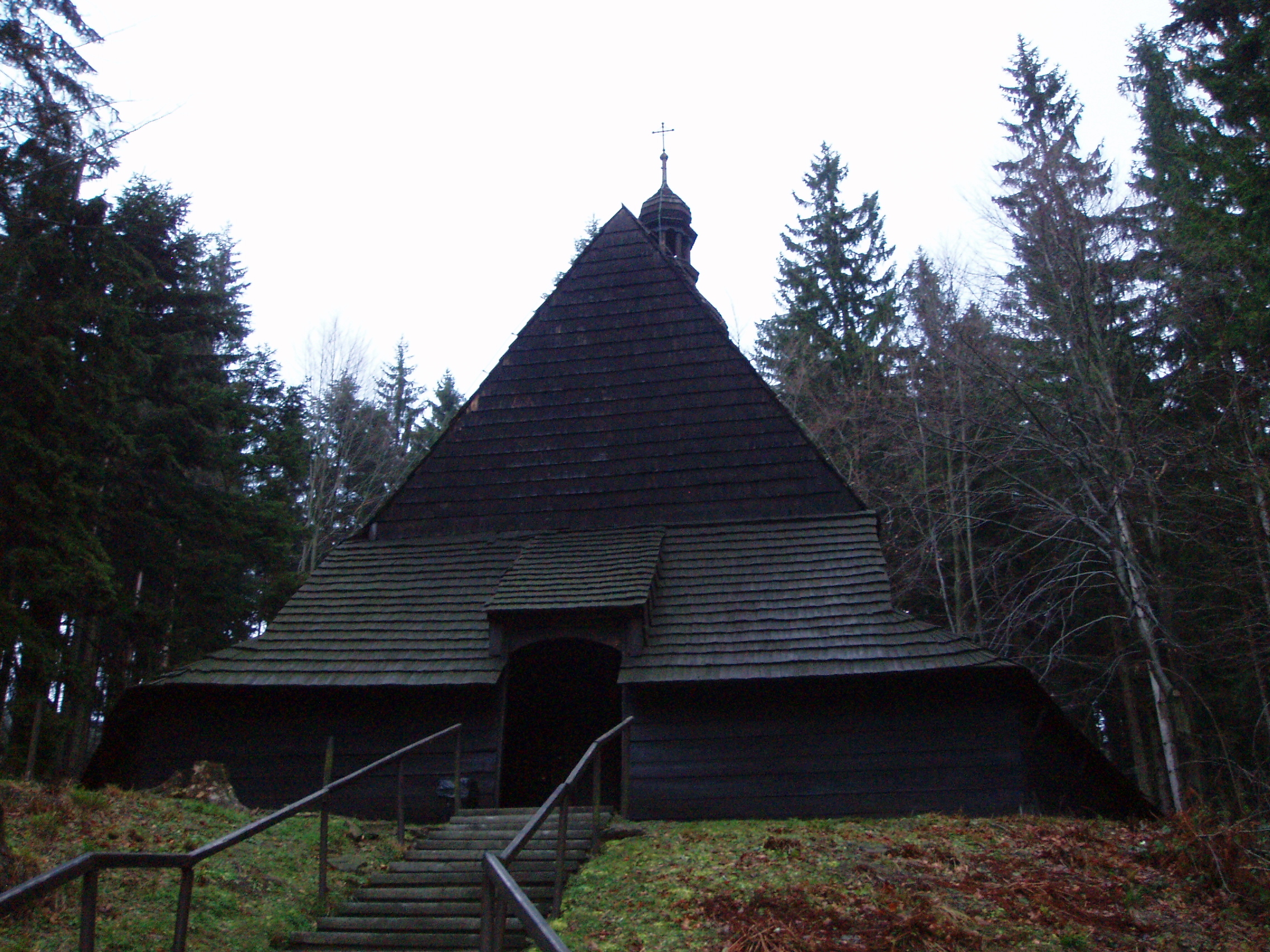 Parish Church of the Holy Cross in Istebna Kubalonka